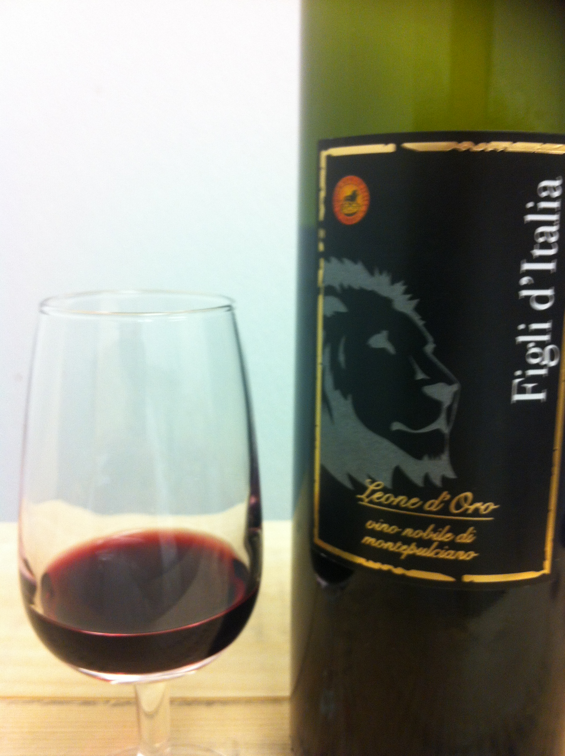 Italian red wine from the Vino Nobile di Montepulciano DOCG in Tuscany made 100% from Sangiovese.